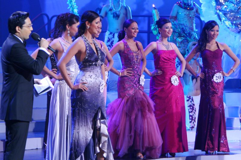 the host with some candidates of Binibining Pilipinas 2008.